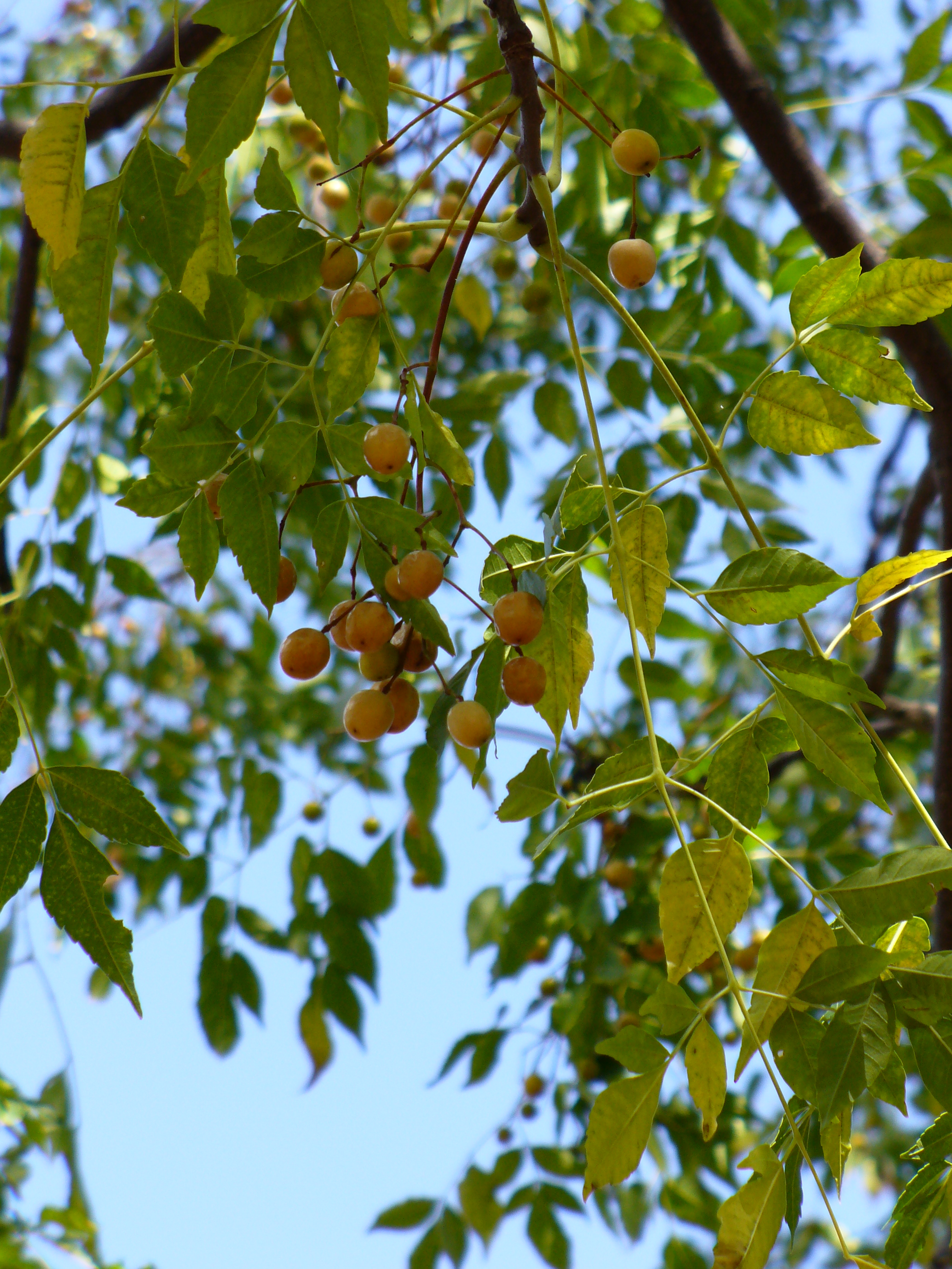 I am the originator of this photo. I hold the copyright. I release it to the public domain. This photo depicts fruit on a Melia azedarach tree.